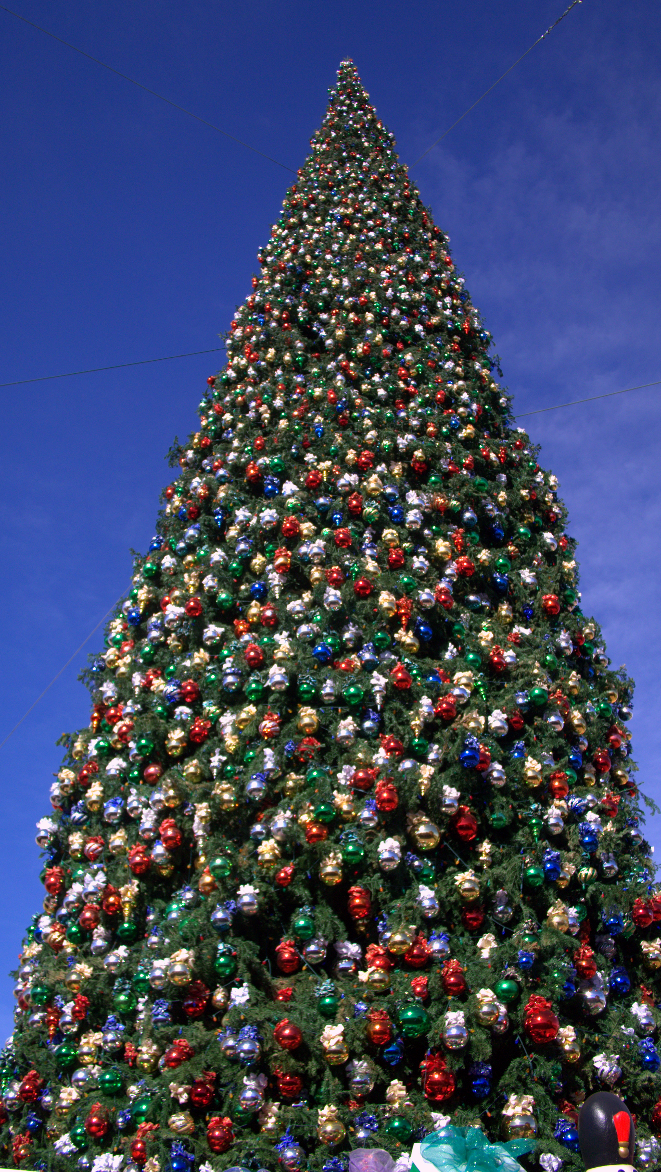 Anthem Christmas Tree - tallest Christmas tree in the United States. Located at the Outlets at Anthem mall in Anthem, Arizona, US.